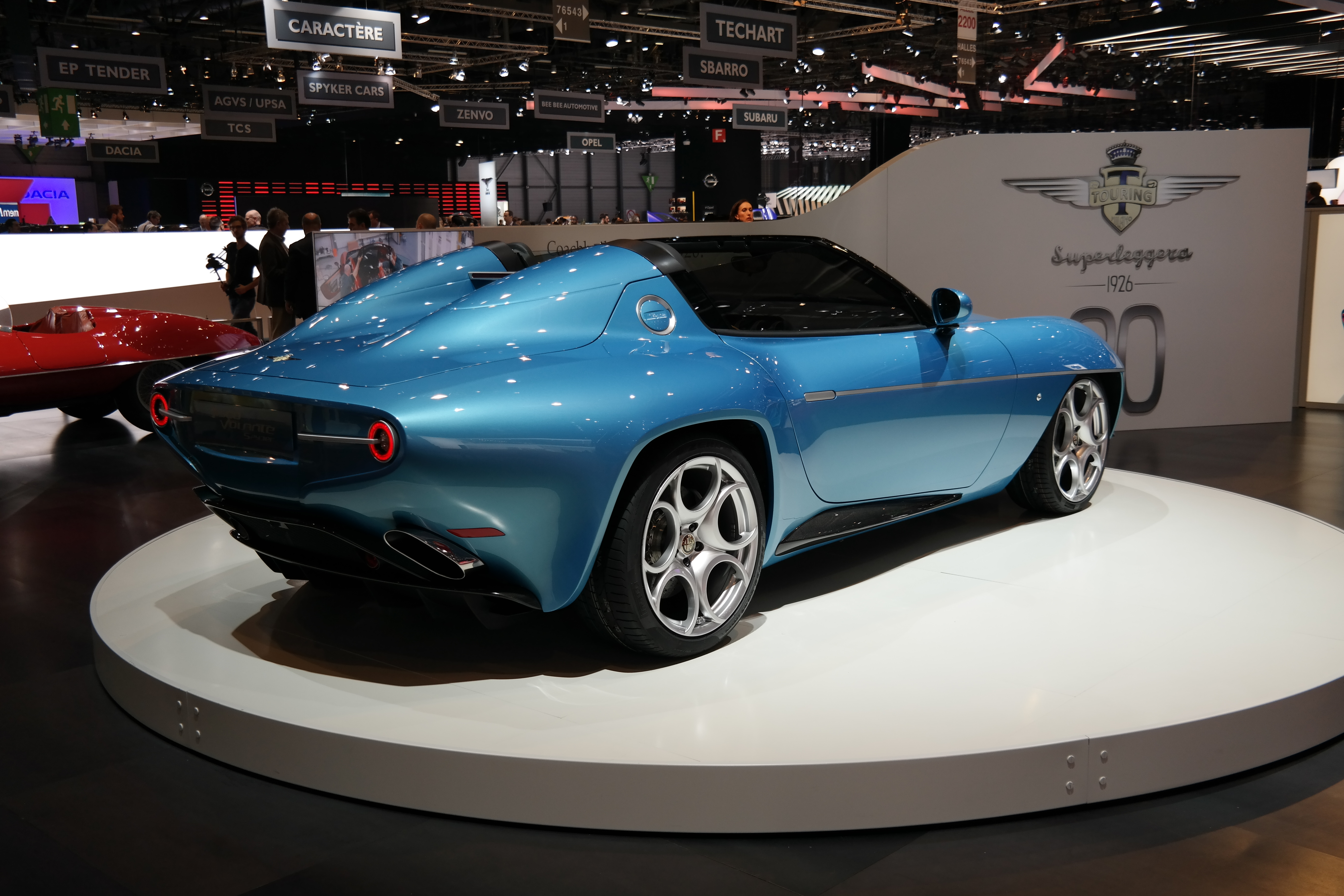 Geneva Motor Show 2016 (photo taken on the first press day)